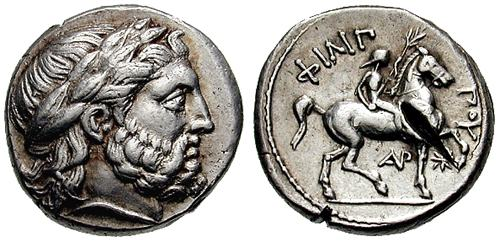 MACEDON, Kings of. Philip II. 359-336 BC. AR Tetradrachm. Amphipolis mint. Struck circa 323-315 BC. Laureate head of Zeus right / ΦΙΛΙΠ-ΠΟΥ, youth on horseback right, crowning horse with palm; * below raised leg, AP below horse